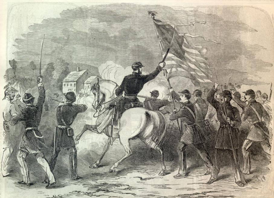 BATTLE OF HOKE'S RUN—COL. STARKWEATHER WITH HIS WISCONSIN REGIMENT DEPLOYING AS SKIRMISHERS.